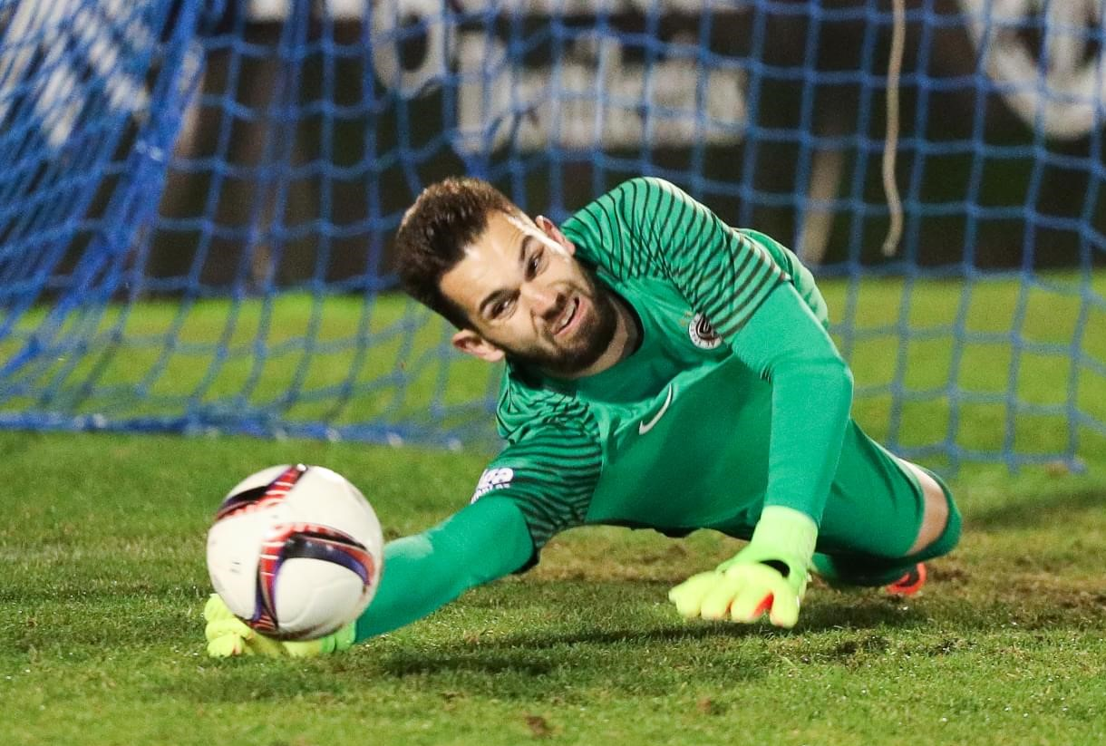 Tomáš Koubek